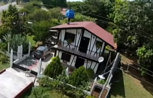 Turén, Venezuela